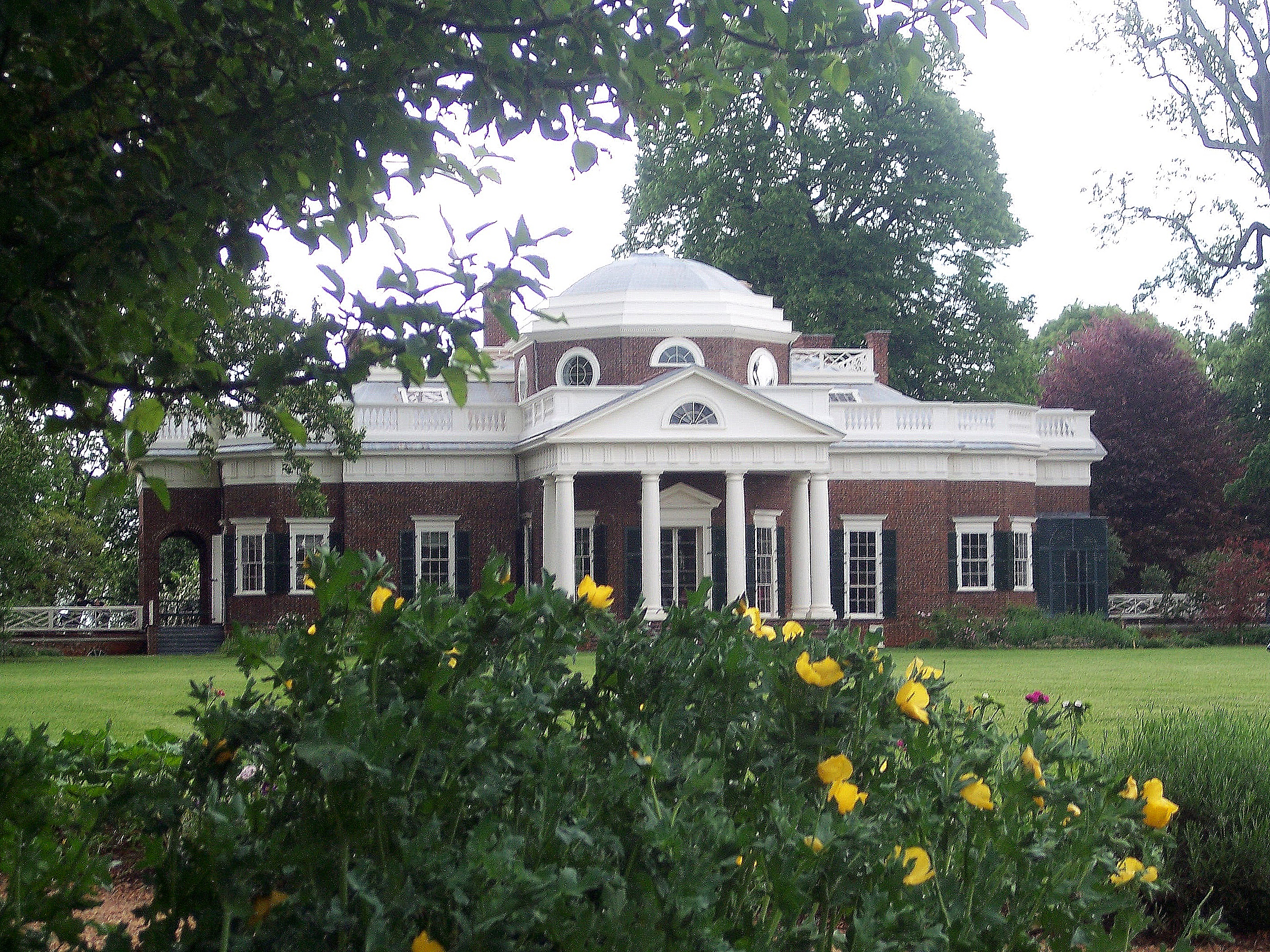 The 'back side' of Monticello and the gardens.